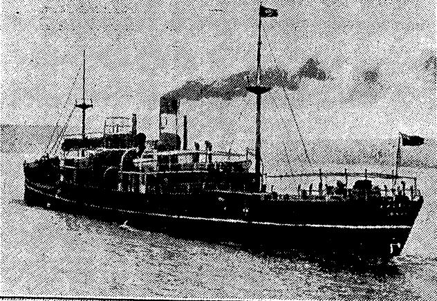 SS Arcwear during loaded trials in 1934.